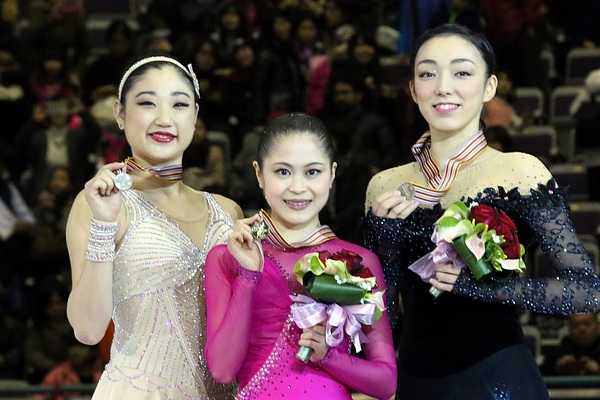 The ladies podium at the 2016 Four Continents Championships. From left: Mirai Nagasu (2nd), Satoko Miyahara (1st), Rika Hongo (3rd)